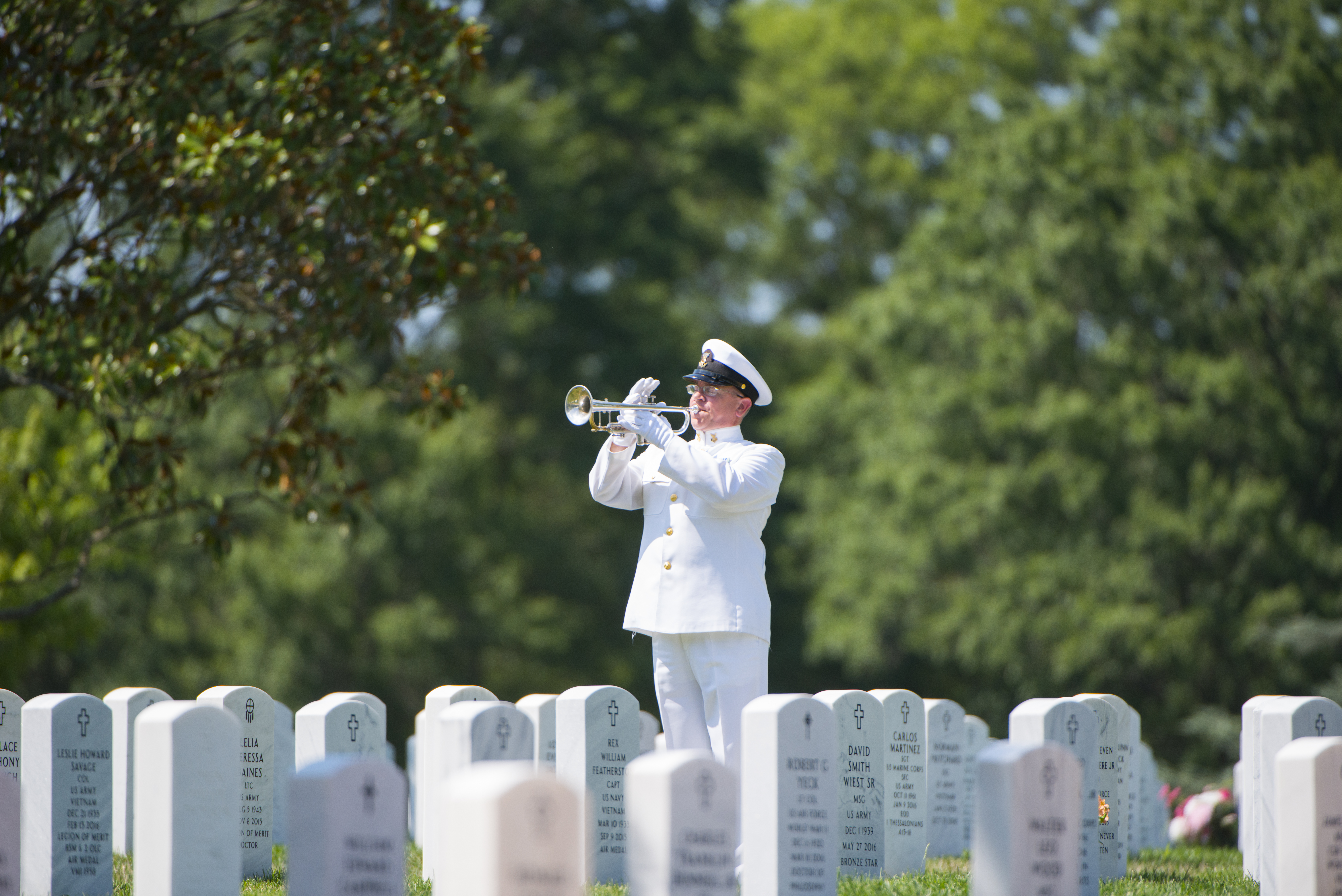 MU1 William Dunn, a bugler from the U.S. Navy Band, plays taps during the graveside service of U.S. Navy Petty Officer 1st Class Xavier A. Martin at Arlington National Cemetery, Arlington, Va., Aug. 9, 2017. Martin perished when the USS Fitzgerald (DDG 62) was involved in a collision with the Philippine-flagged merchant vessel ACX Crystal, flooding the berthing compartment he was occupying. Martin was buried with standard honors in Section 60. (U.S. Army photo by Elizabeth Fraser / Arlington National Cemetery / released)